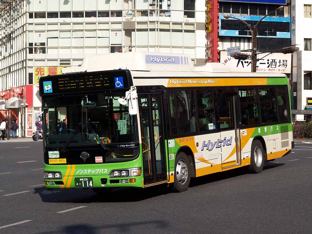 Toei Bus Hino Blue Ribbon City Hybrid (BJG-HU8JLFP) License plate: TKN230 A-114（練馬230あ・114） Place: East side of O-Guard: neighbour of Kabukicho, Shinjuku-ward, Tokyo Japan